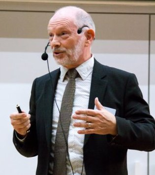 Luc Moens